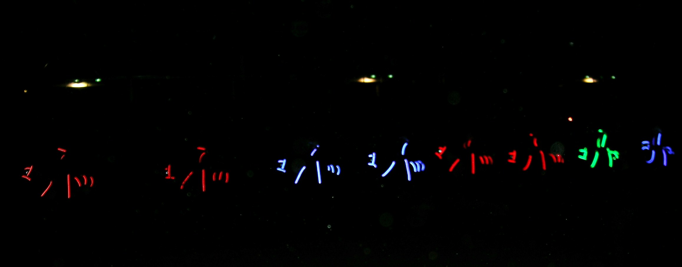 Some of the performing twelve Electric Horsemen, AELEC, Tamworth, NSW